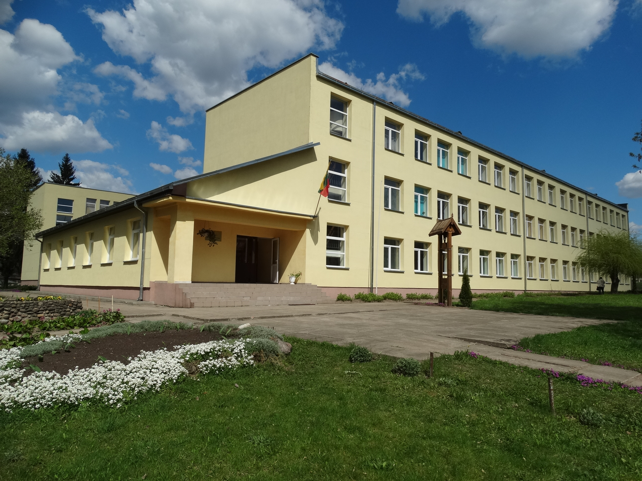 Rytas Gymnasium, Dieveniškės, Šalčininkai District, Lithuania